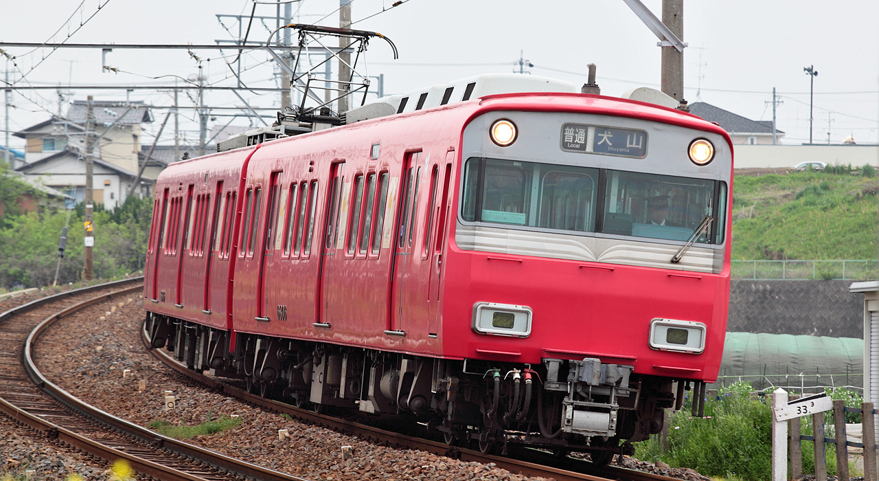 Meitetsu 6800 series EMU ( 6806F ), between Haba Sta. and Unumajuku Sta.